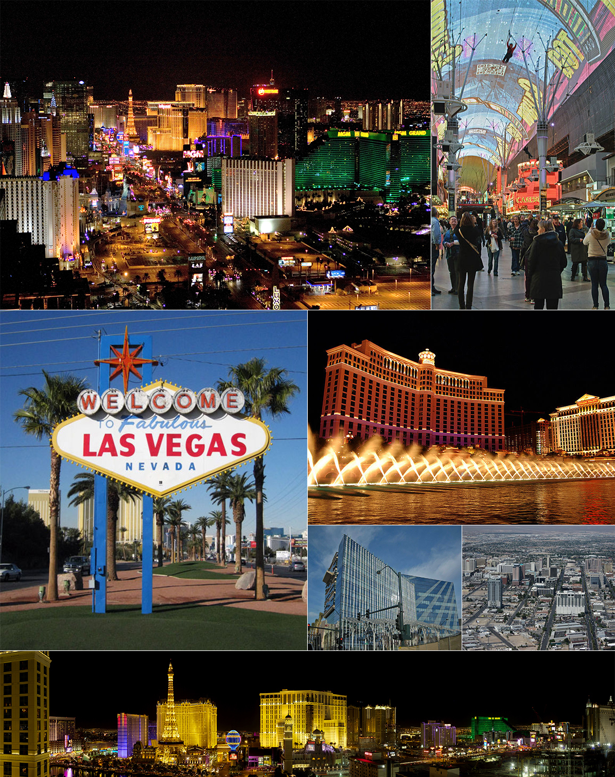 Montage of Las Vegas Valley landmarks, including the Strip, Fremont Street Experience, and Las Vegas City Hall.